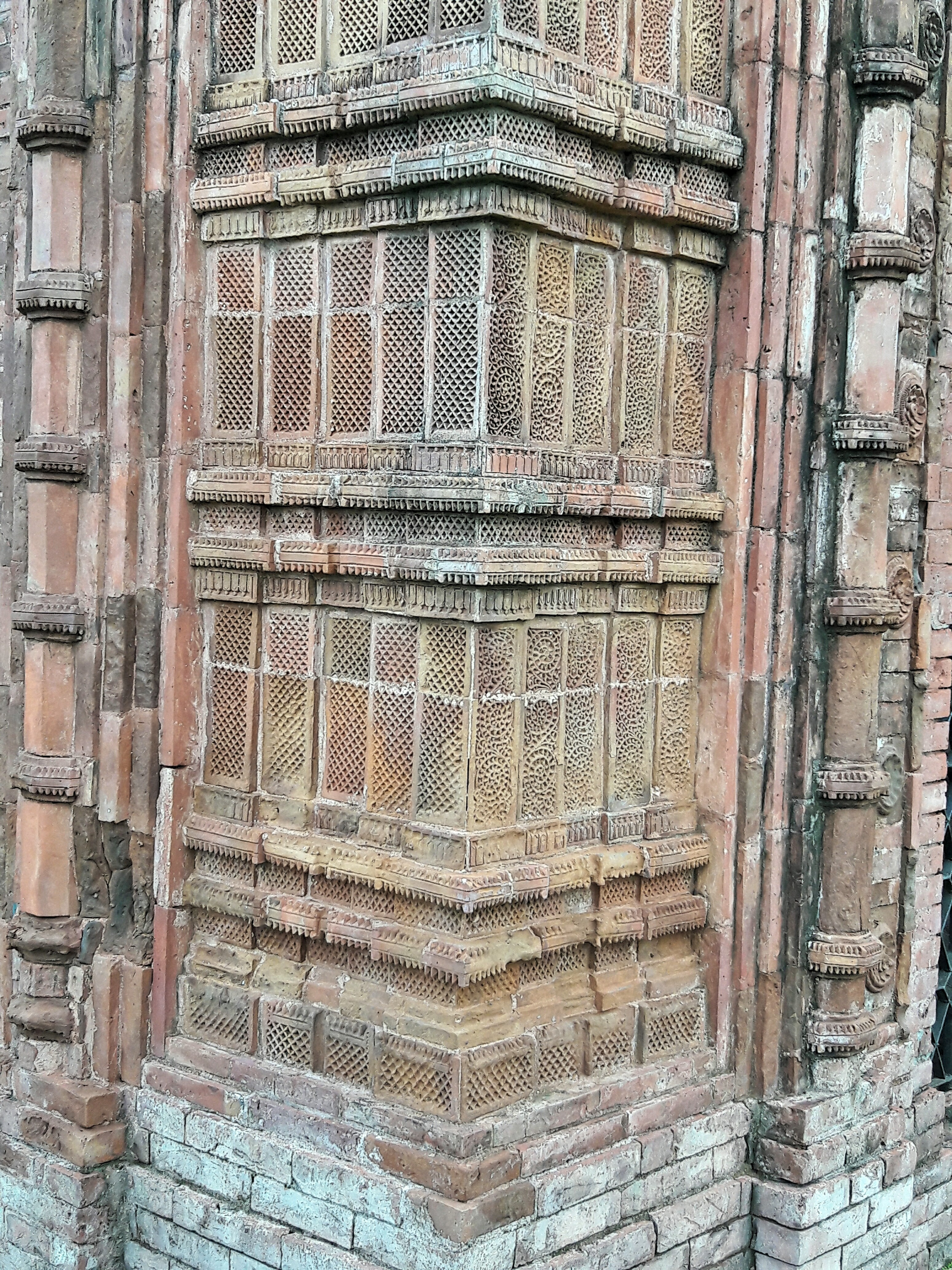 It is in Jessore